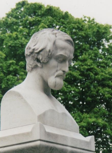 Bust of Heinrich Heine by Louis Hasselriis, Paris, Cimetière de Montmartre